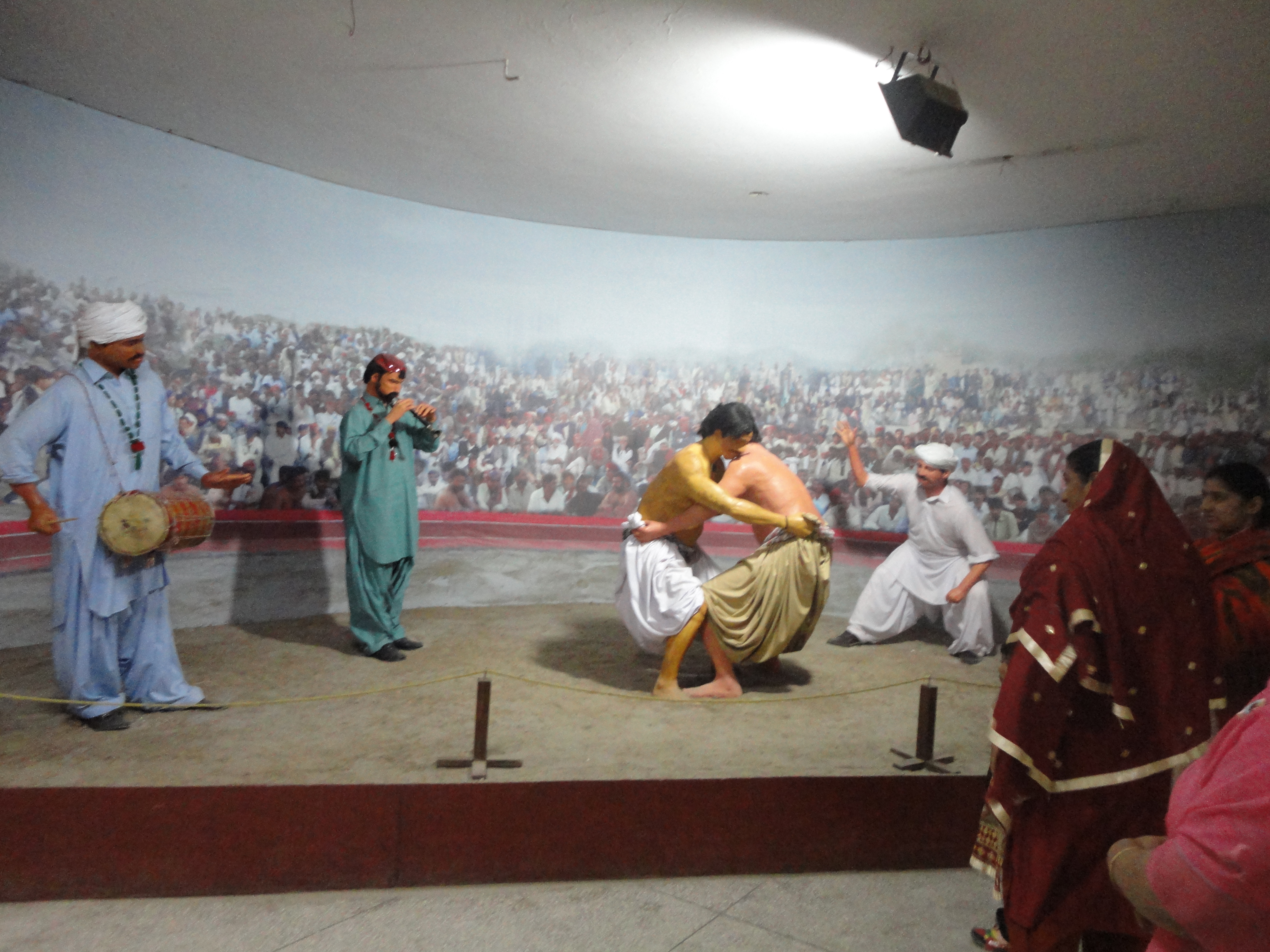 Institute of Sindhology Jamshoro